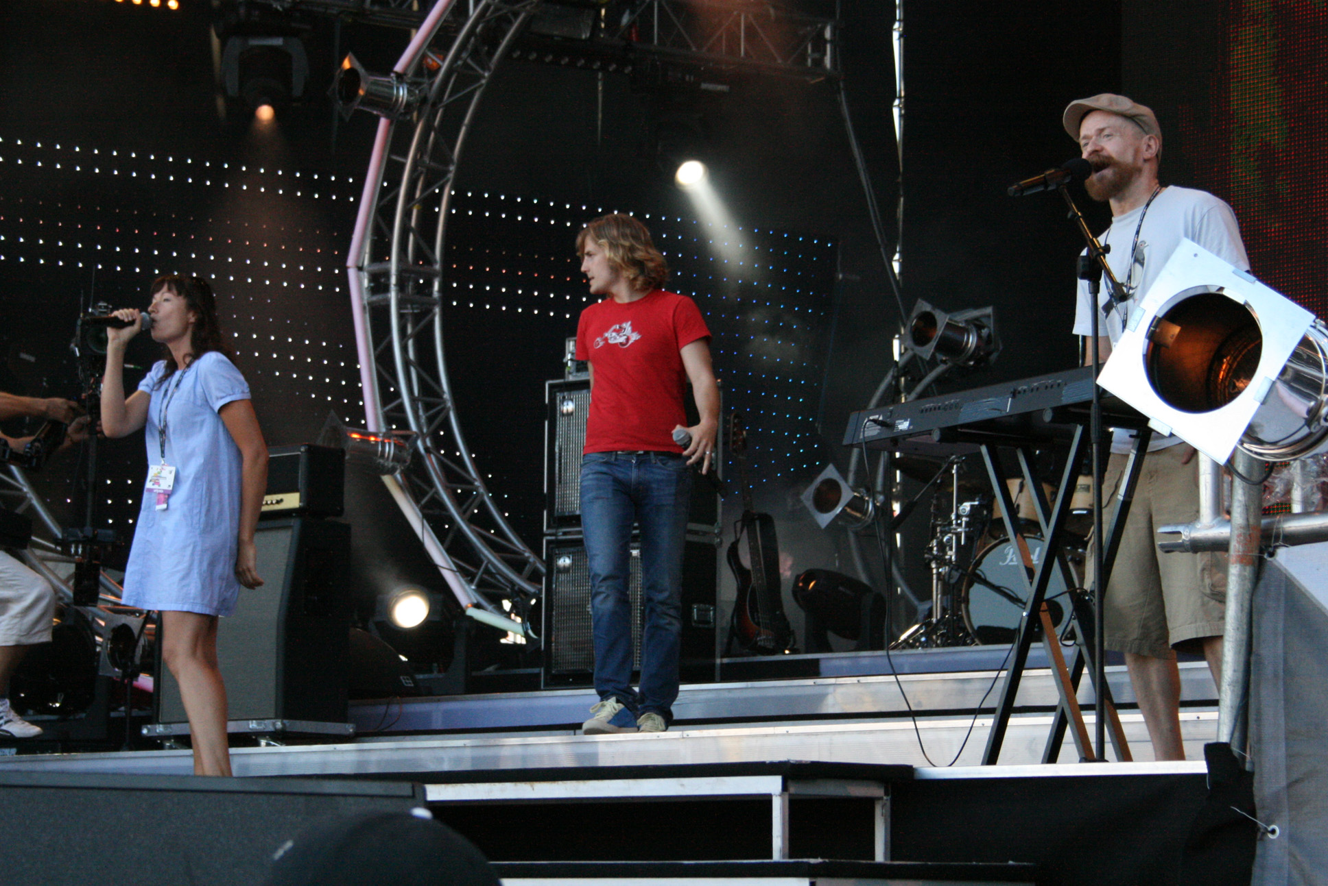 Bodies Without Organs, koncert "Hity na czasie” - próba generalna. The Tall Ships' Races, Szczecin 2007